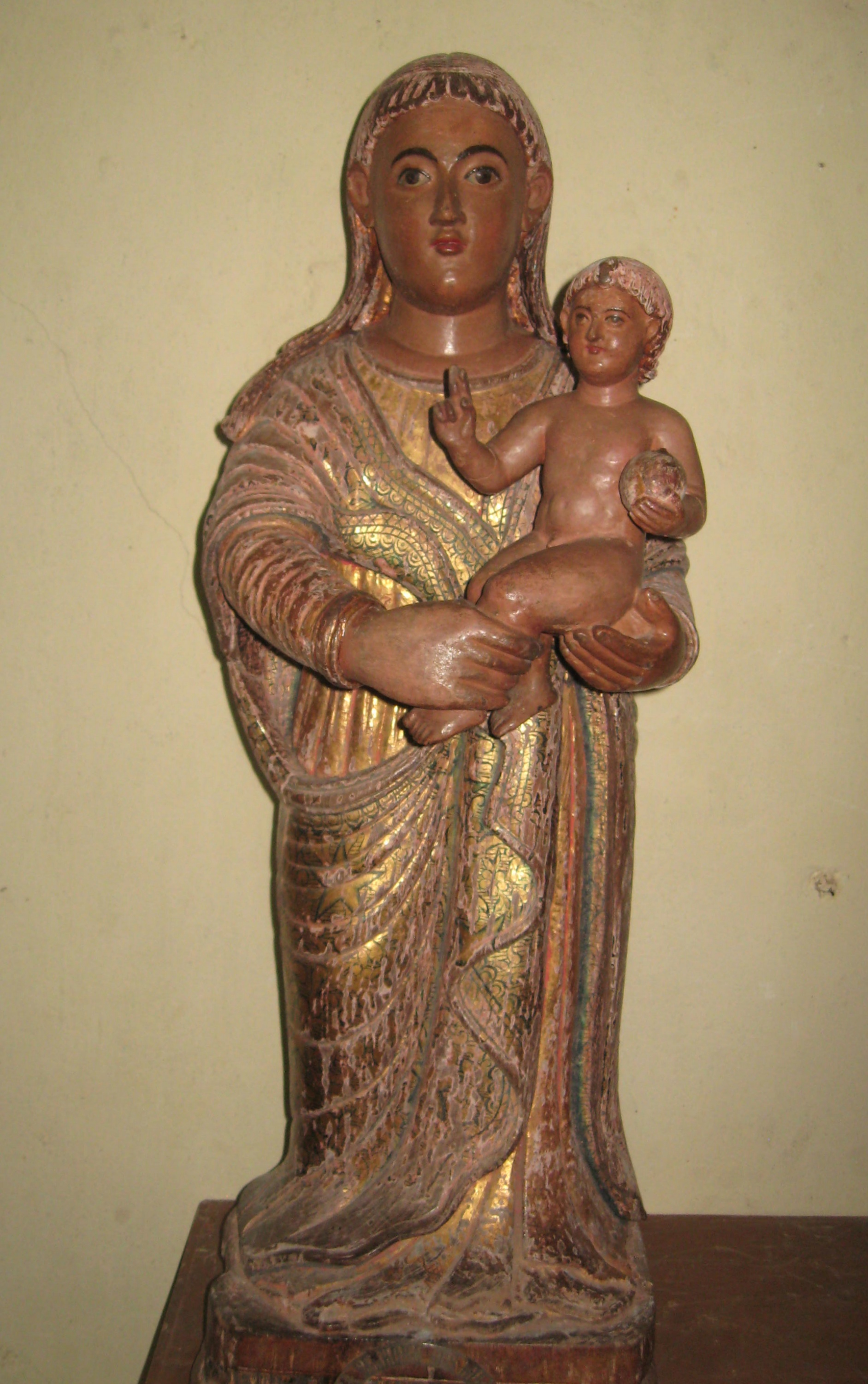 Statue of Our Lady of Miracles Jaffna patao Location: Church of Sao Pedro, Goa Country: India